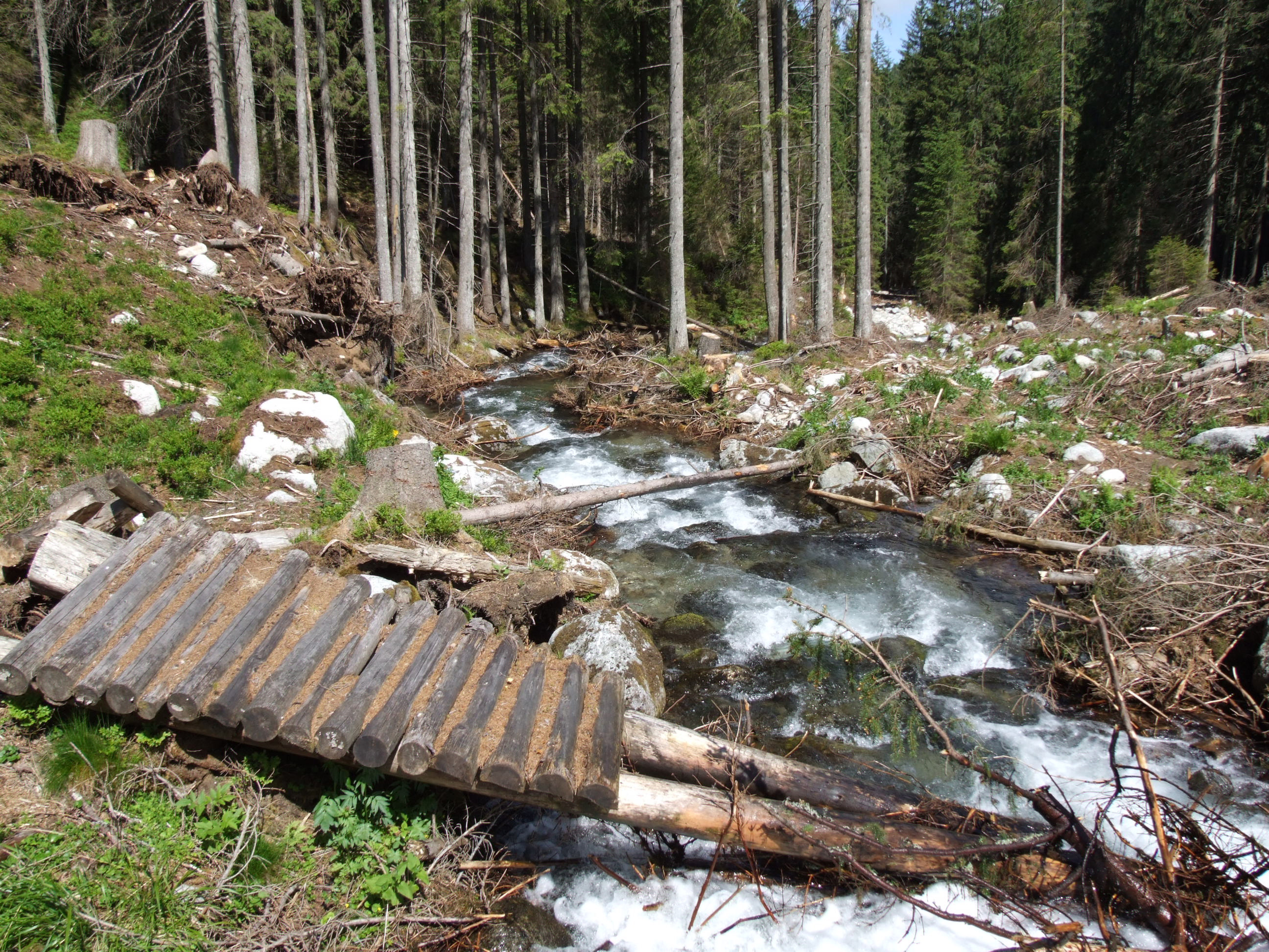 Demänovka stream, Slovakia